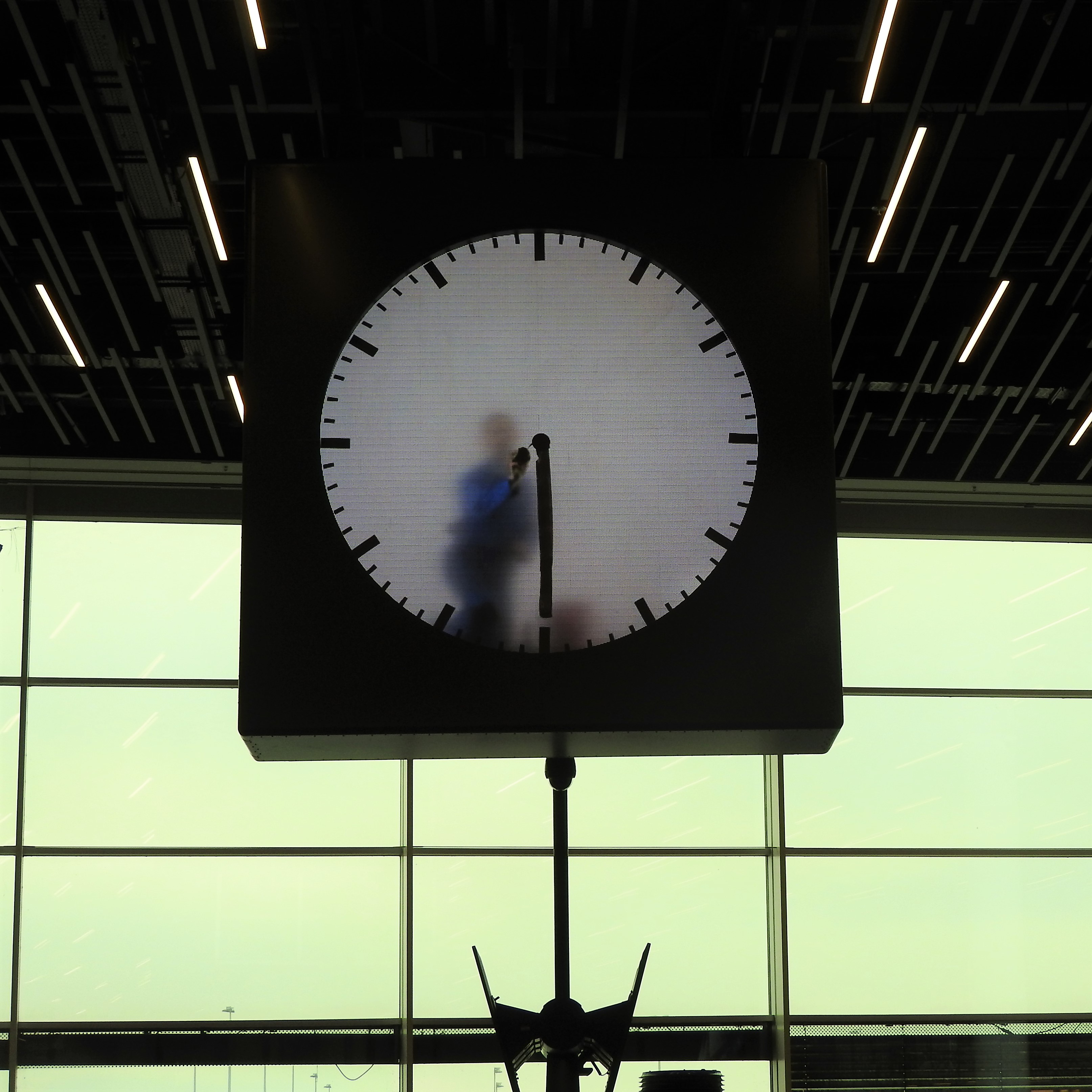 At first I thought it was being cleaned from the inside